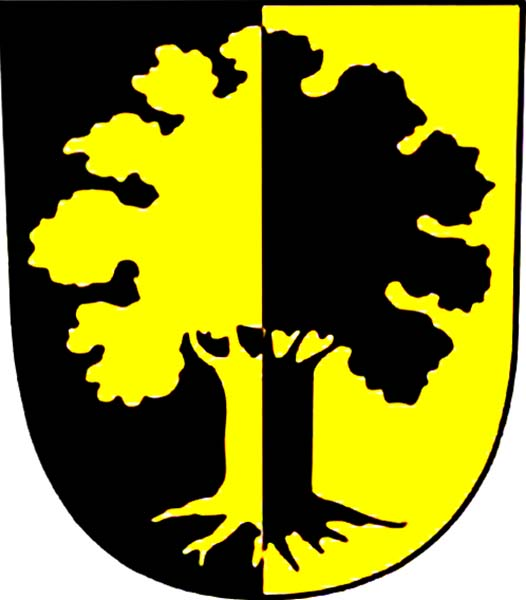 Municipal coat of arms of Dubí town, Teplice District, Czech Republic.